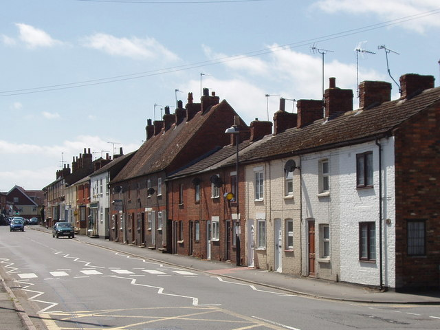 High Street, Winslow Houses and small shops, all two storey but with a variety of heights and roof lines.